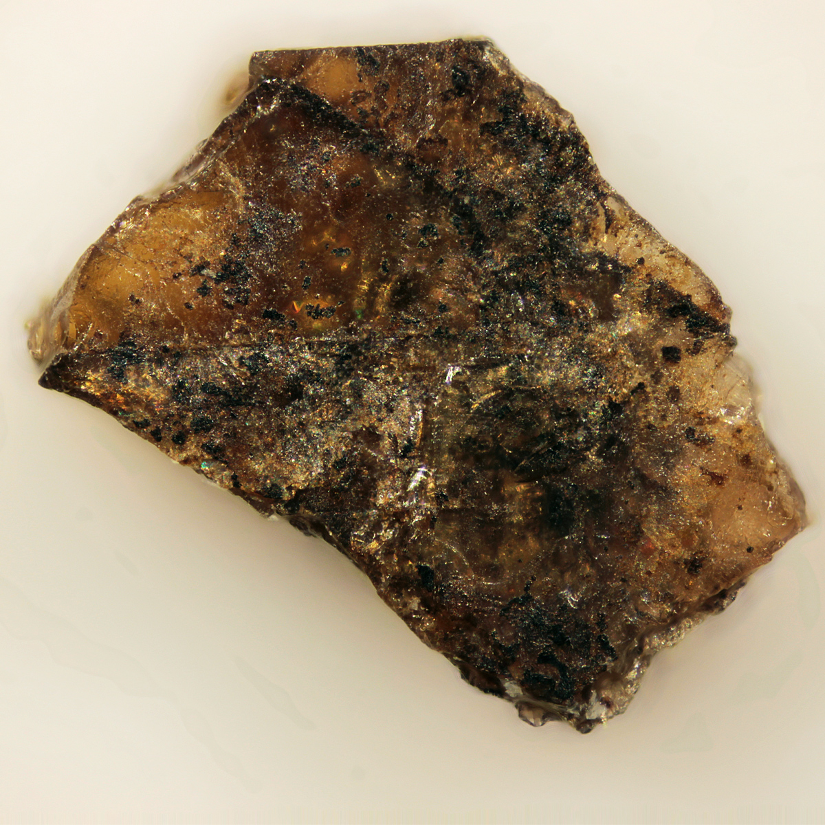 Locality: Petrelius River, Khibiny, Kola, Russian Federation Size: 0.14 × 0.08 × 0.05 cm Description: A small translucent crystalline fragment from the type locality (TL) of this extremely rare species. This fragment is part of the holotype. Georgbarsanovite is a very rare mineral of the eudialyte group, formerly known under unaccepted name as barsanovite. Barsanovite, described in 1963 as а monoclinic dimorph of trigonal eudialyte, was discredited in 1969 bесаuse its assignment to the monoclinic system had been proved to bе erroneous. Revision study of the barsanovite type specimen carried out with use of the X-ray single crystal analysis has shown that the mineral is trigonal and has а distinct combination of cations and anions in the key sites of the crystal structure. The mineral was revalidated in 2003 as georgbarsanovite given as before after prof. Georgiy Pavlovich Barsanov (1907-1991). [rruff] IMA2003-013 - Discredited monoclinic Barsanovite to trigonal. IMA2007-008 - Determined trigonal structure of georgbarsanovite. Type Locality: Nepheline pegmatite outcrop, Petrelius River, Khibiny Massif, Kola Peninsula, Murmanskaja Oblast', Northern Region, Russia.